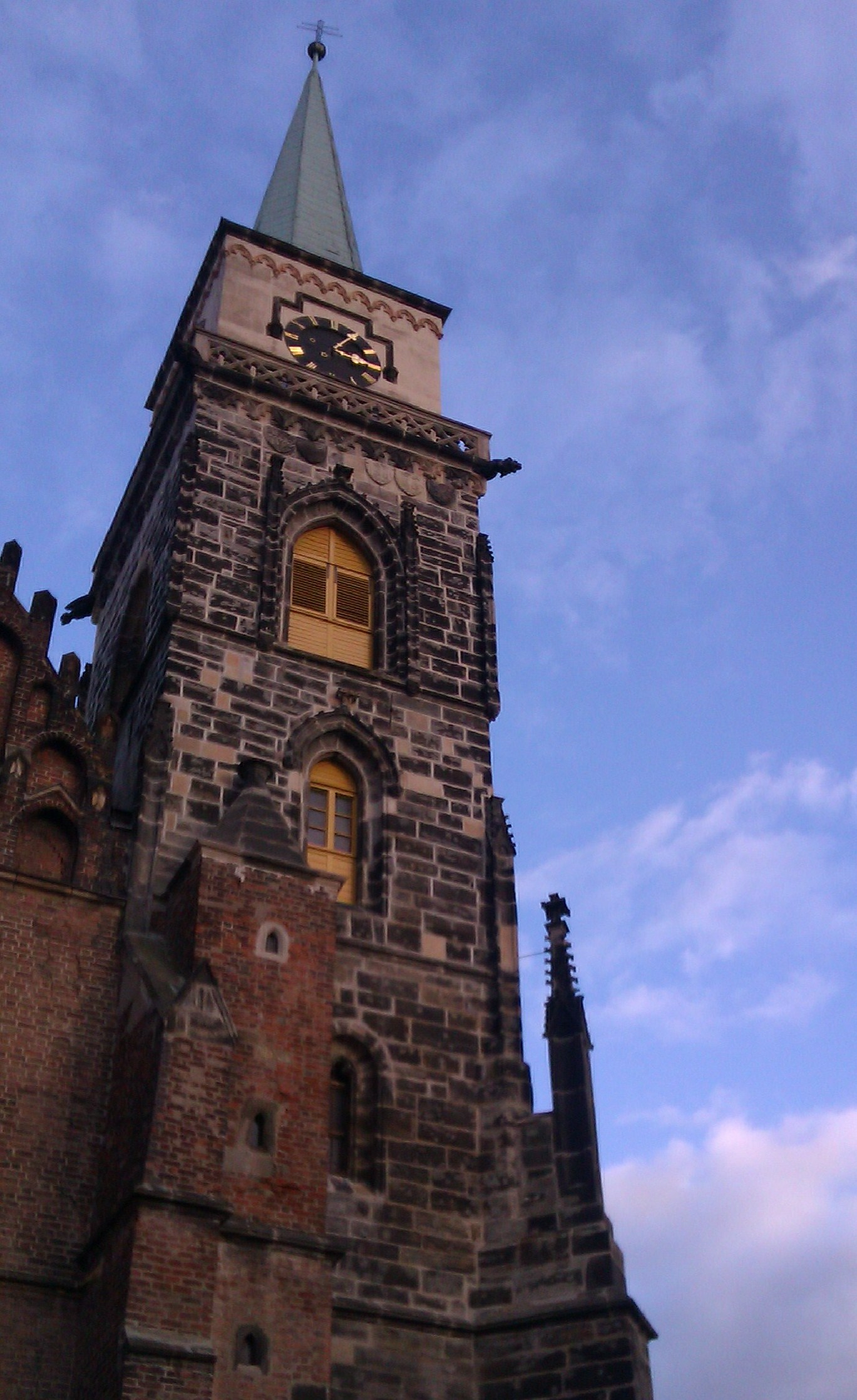 Věž kostela